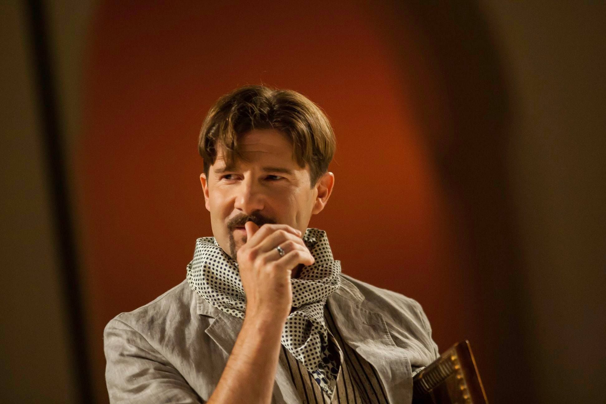 Josip Zovko in a theatrical performance by William Shakespeare as TIMON ATENJANIN (painter), in 2013 Foto: Matko Biljak